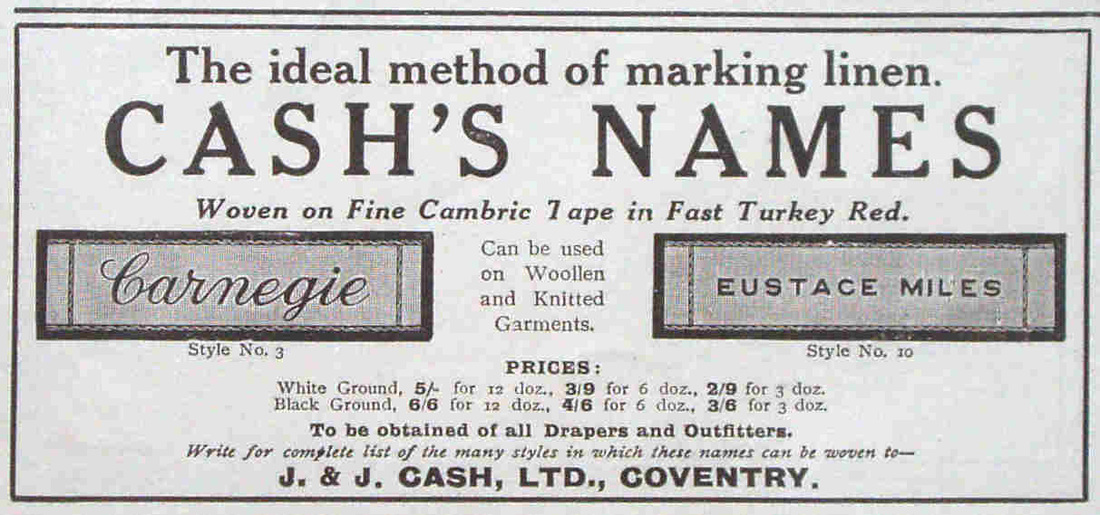 Name Tapes advert in the Pears' Annual Christmas 1920